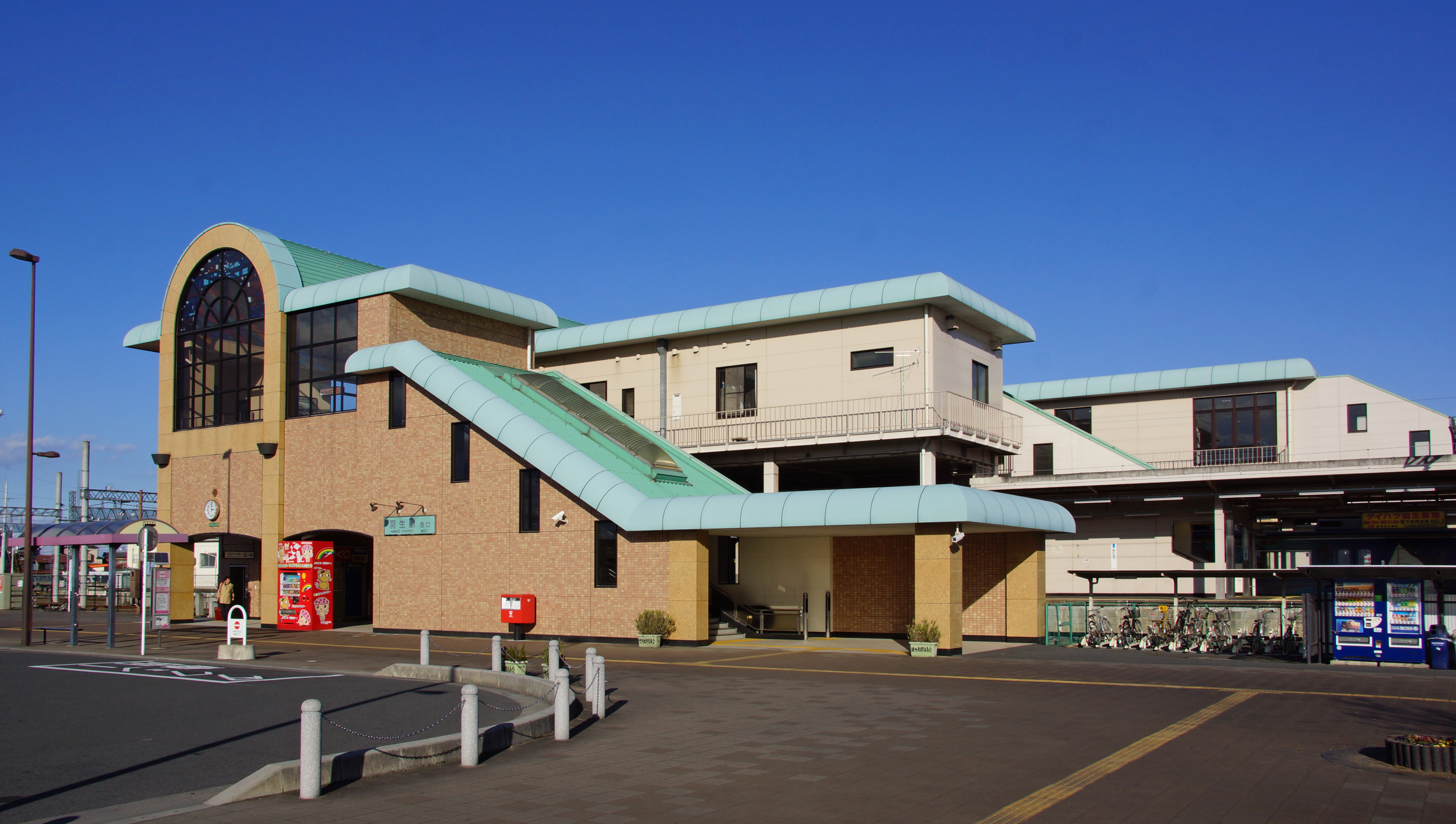 The west side of Hanyu Station in Saitama Prefecture, Japan